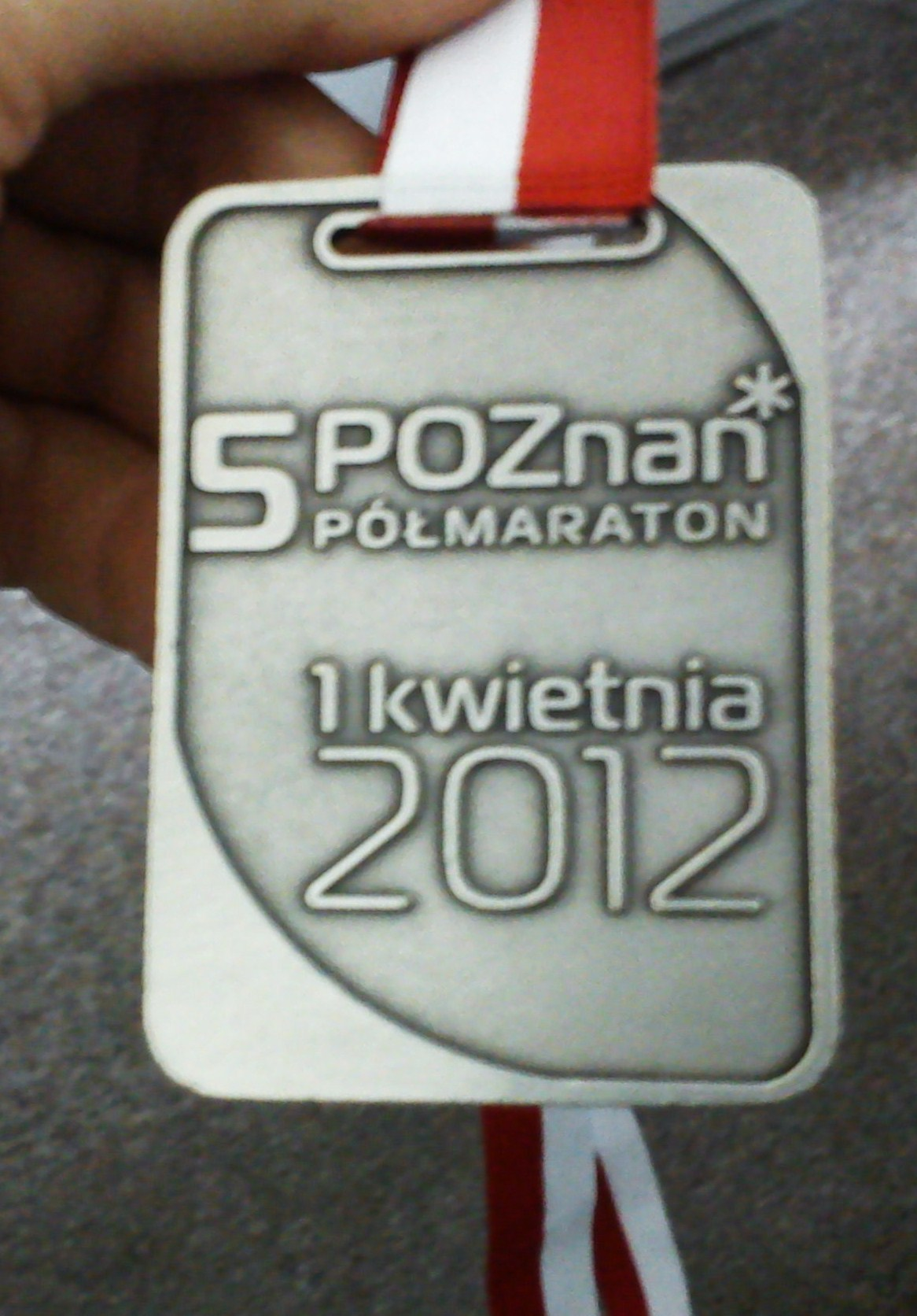 5. Poznań Half Marathon 2012 - medal.